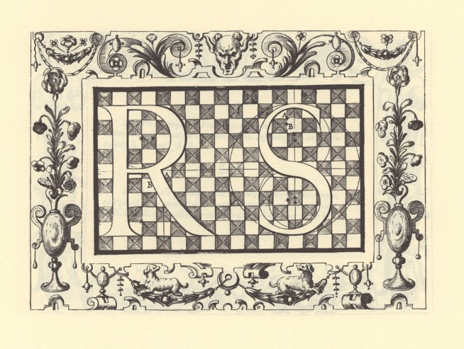 One page from Béle prairie, 1601.